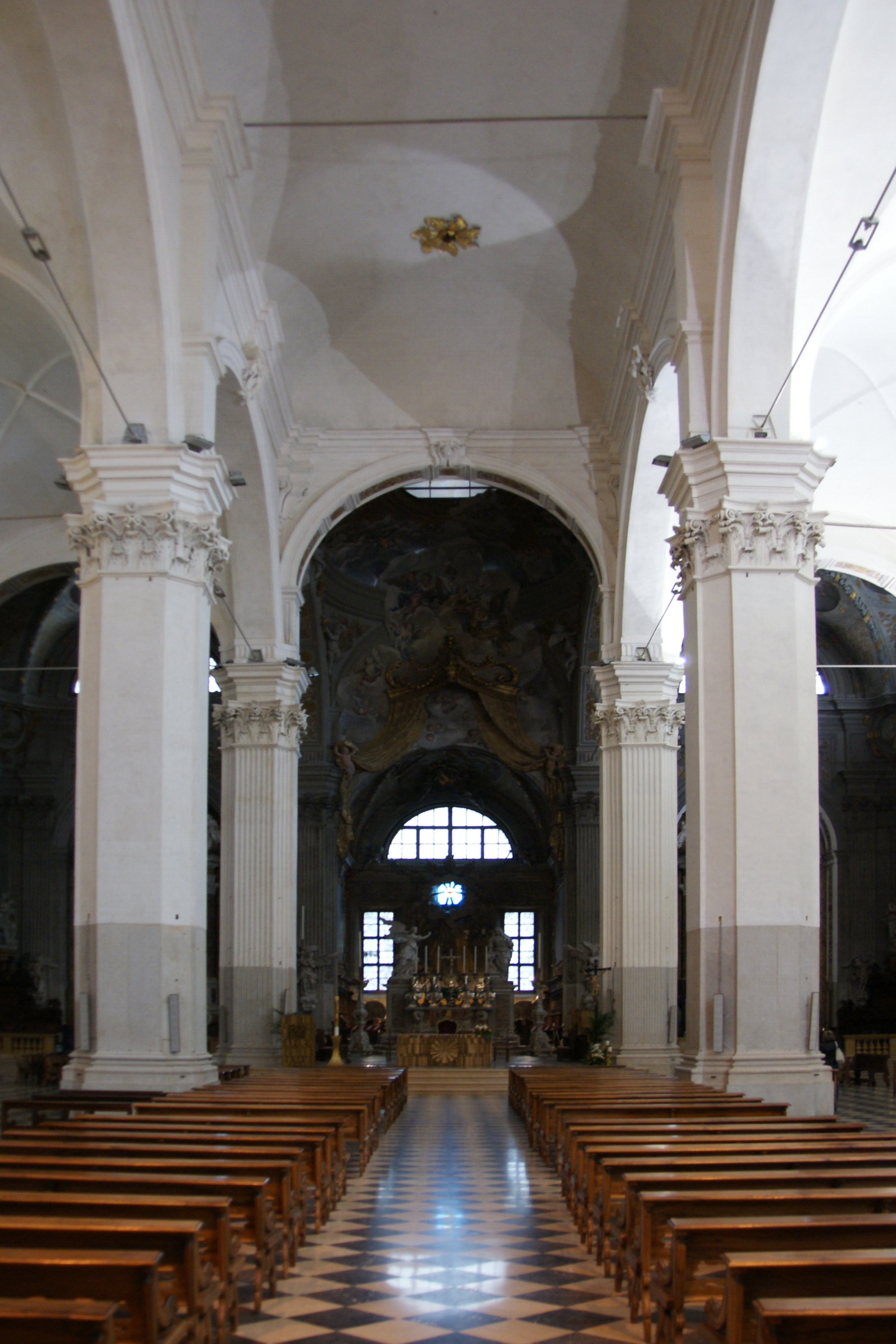 Udine, interior of Cathedral